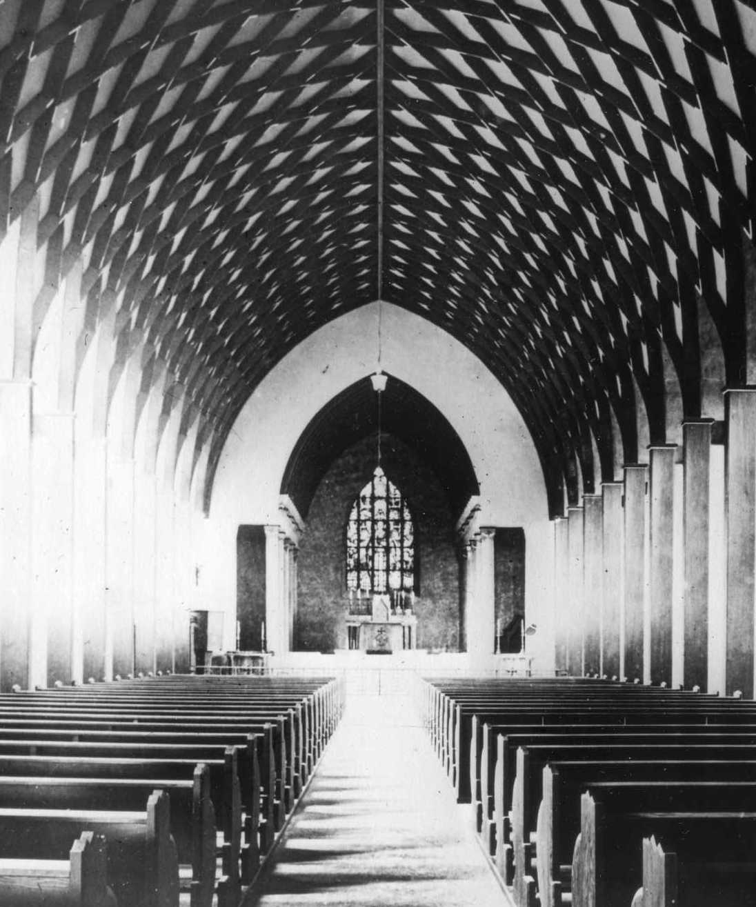 Heilbronn